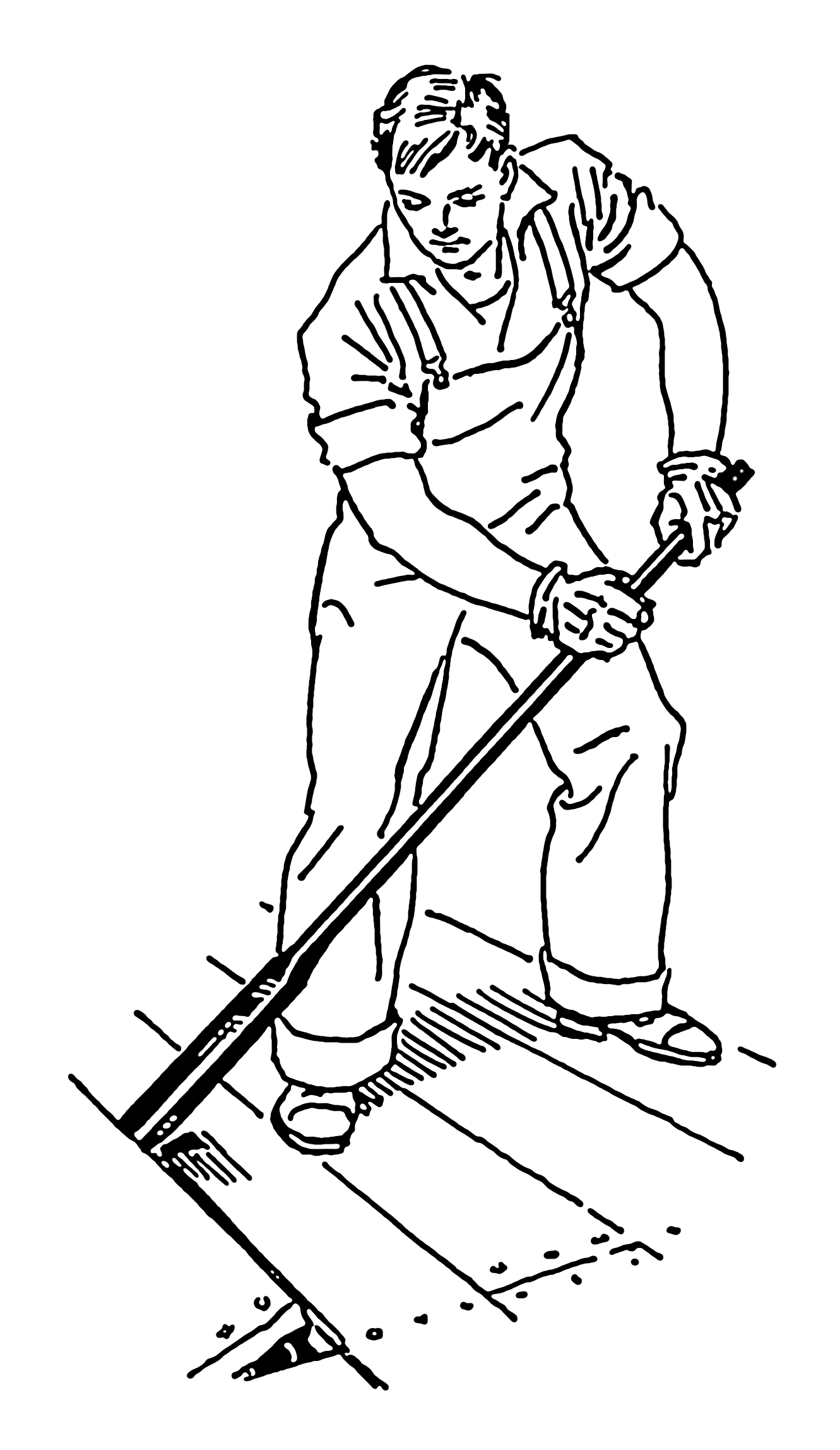 Line art drawing of a man using a crowbar.